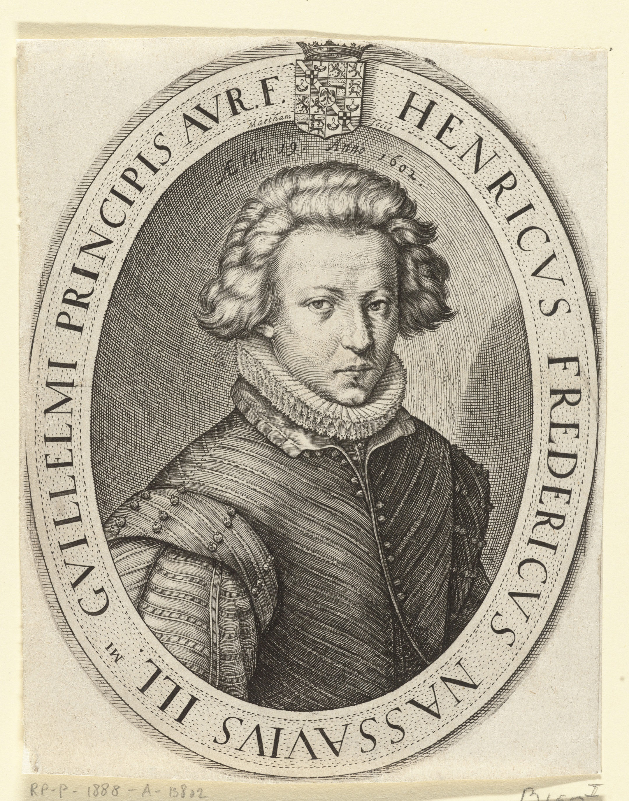 Frederick Henry, Prince of Orange in 1602